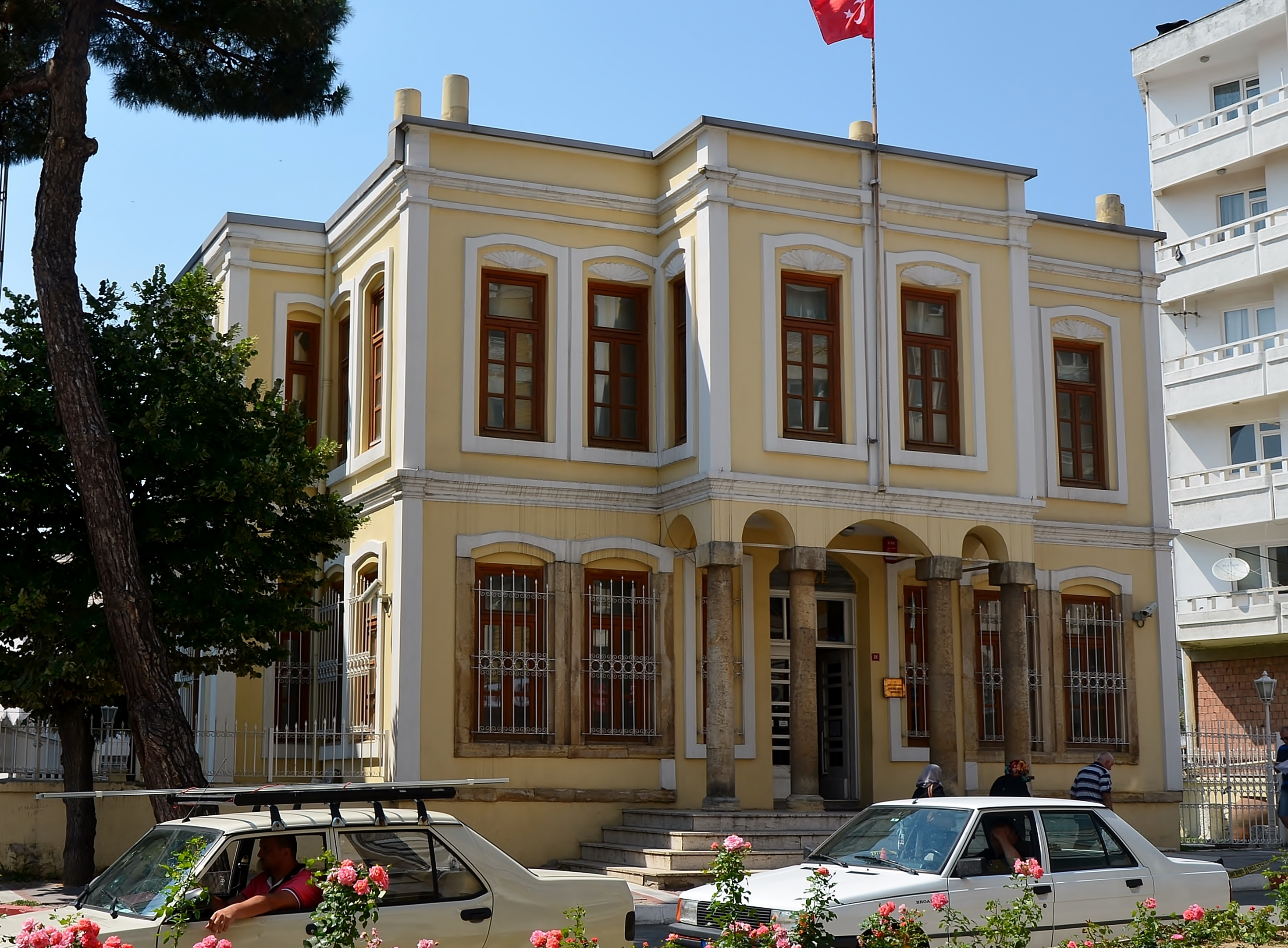 Building of Kırklareli Museum in Mustafa Kemal Boulevard 26